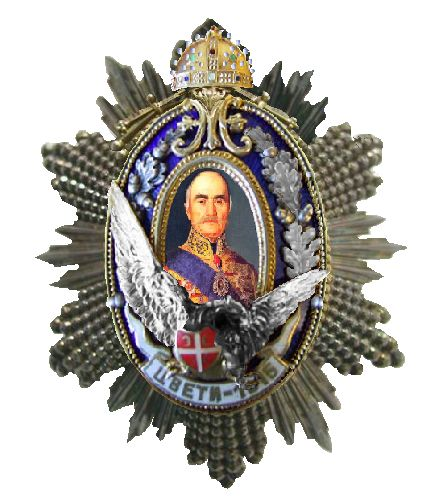 Impression of the star of the Serbian Order of Milos the Great